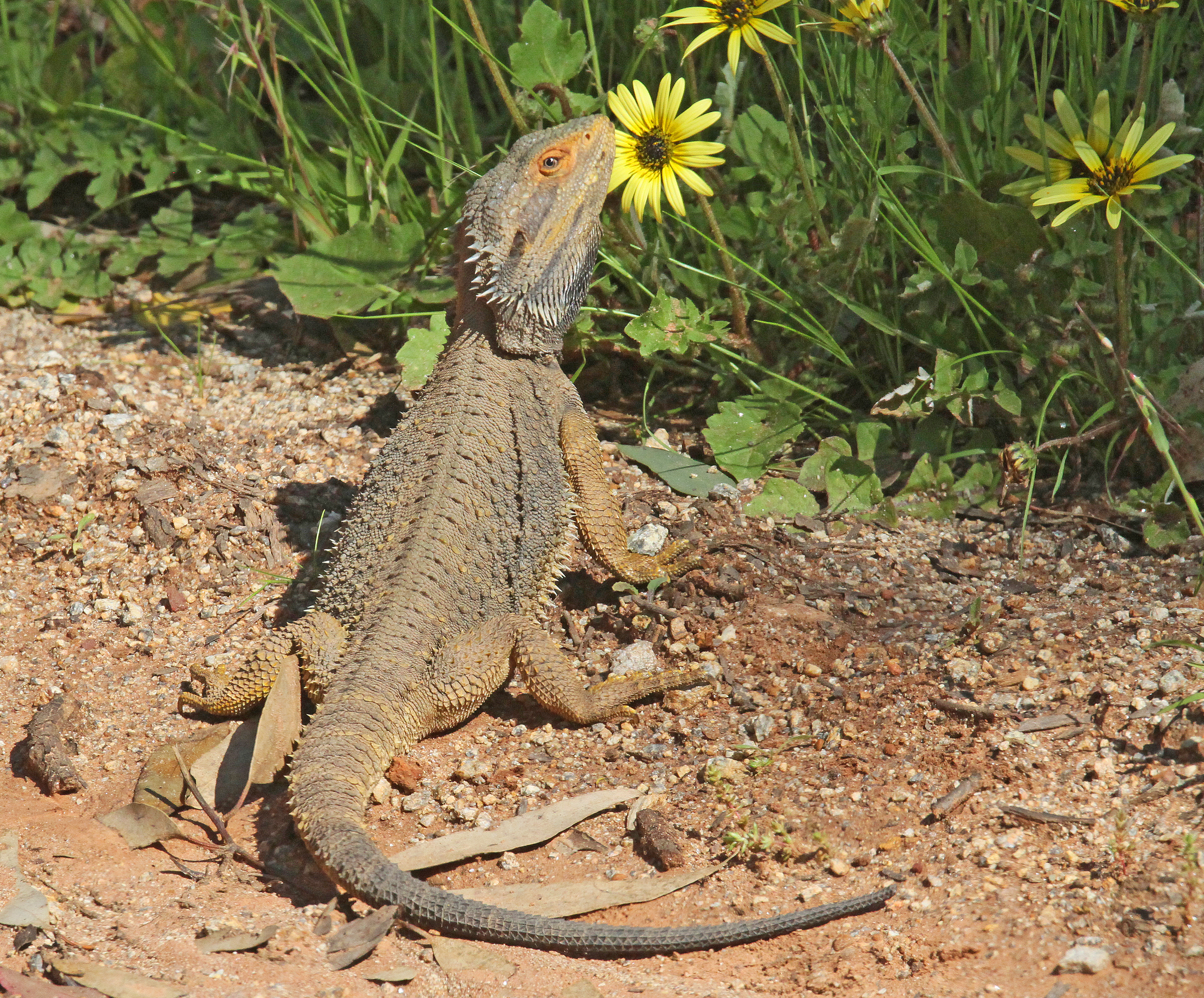 photo of Bearded Dragon